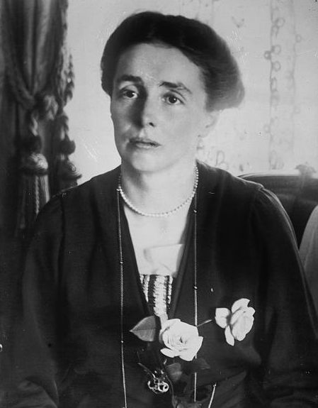 Beatrice Child Villiers (1880-1970), wife of Edward Plunkett, 18th Baron Dunsany